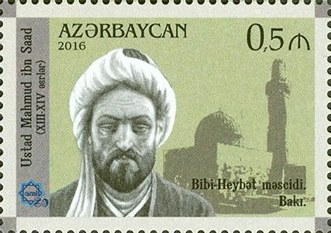 The 80th Anniversary of the Union of Architects of Azerbaijan. N 1248 - 50 qapik. There are pictured Mahmoud ibn Saad and mosque “Bibi Heybat” in Baku on the stamps.